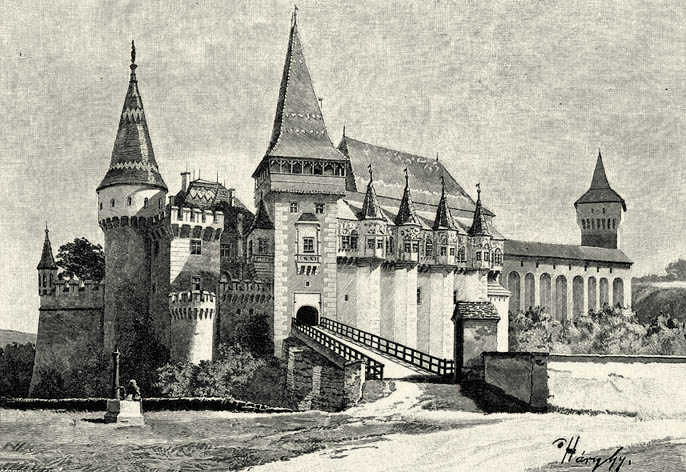 A Vajda-Hunyad vár. Háry Gyulától